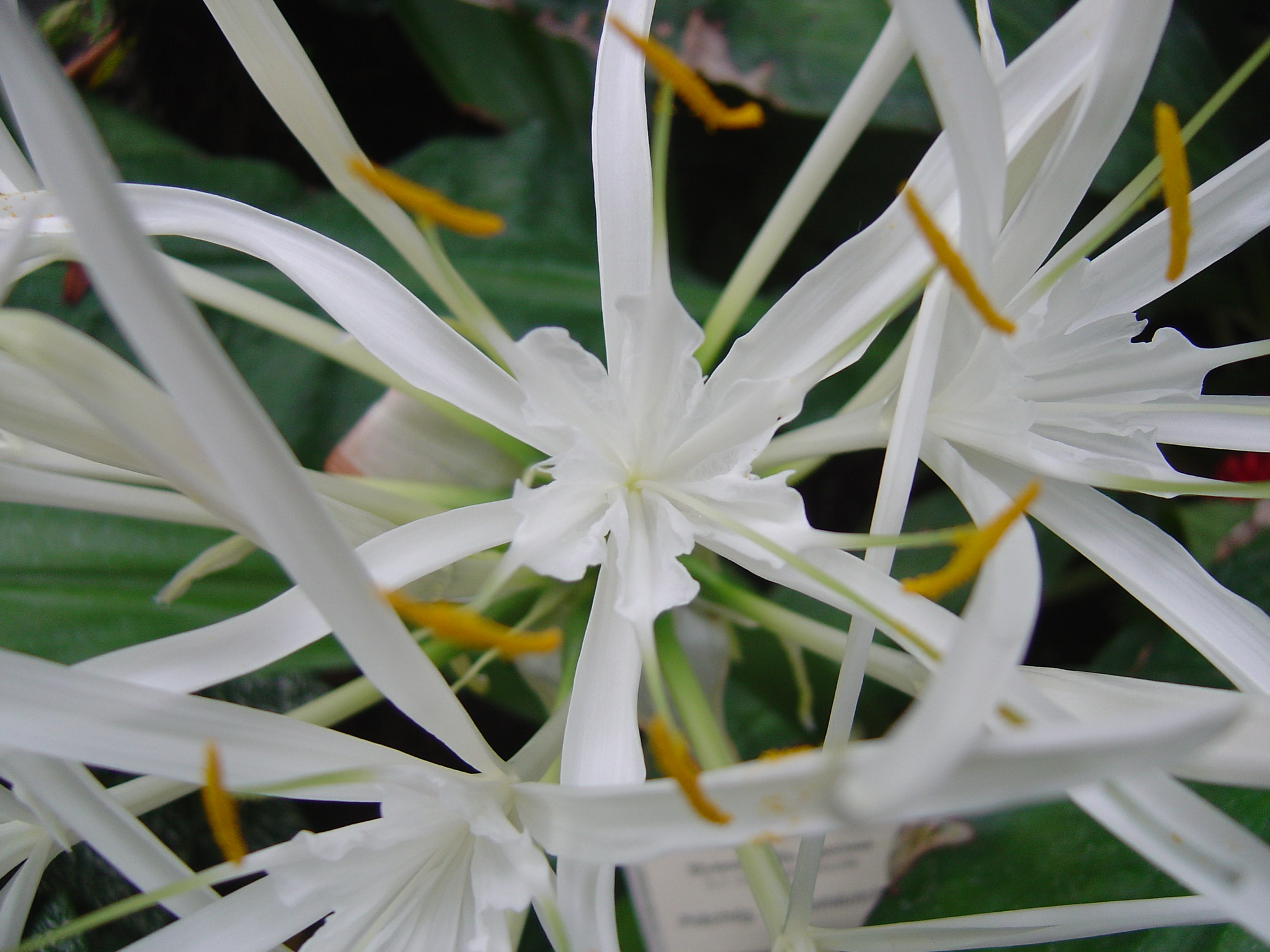 Photograph of the flower of the green-tinge spiderlily (Hymenocallis speciosa) from a greenhouse at the botanical gardens in Münster, Germany